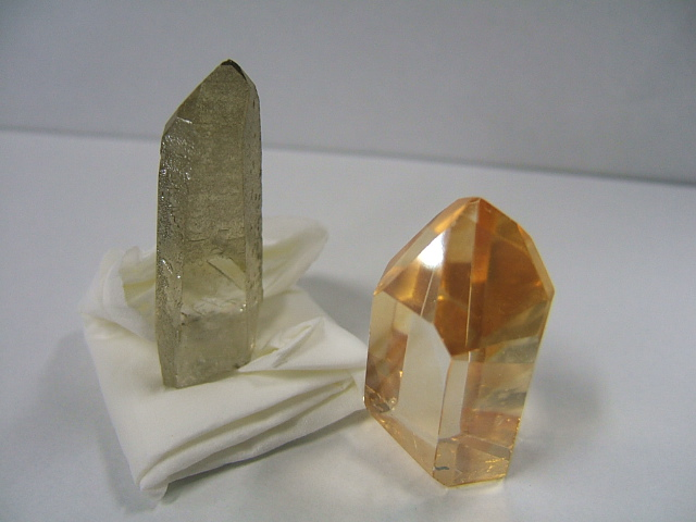 golden aura crystal points